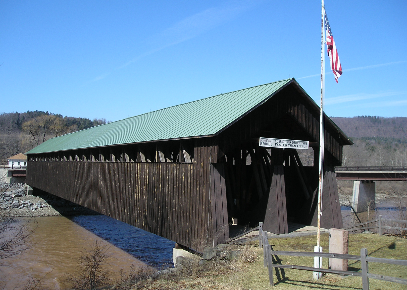 The Old Blenheim Bridge in North Blenheim, New York is the longest covered bridge of its type in the world. Photographed 11 March 2008 from up the hill on the eastern shore of the Schoharie Creek.